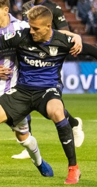 Real Valladolid - C. D. Leganés, 14th fixture of the 2018-19 La Liga, December 1, 2018.